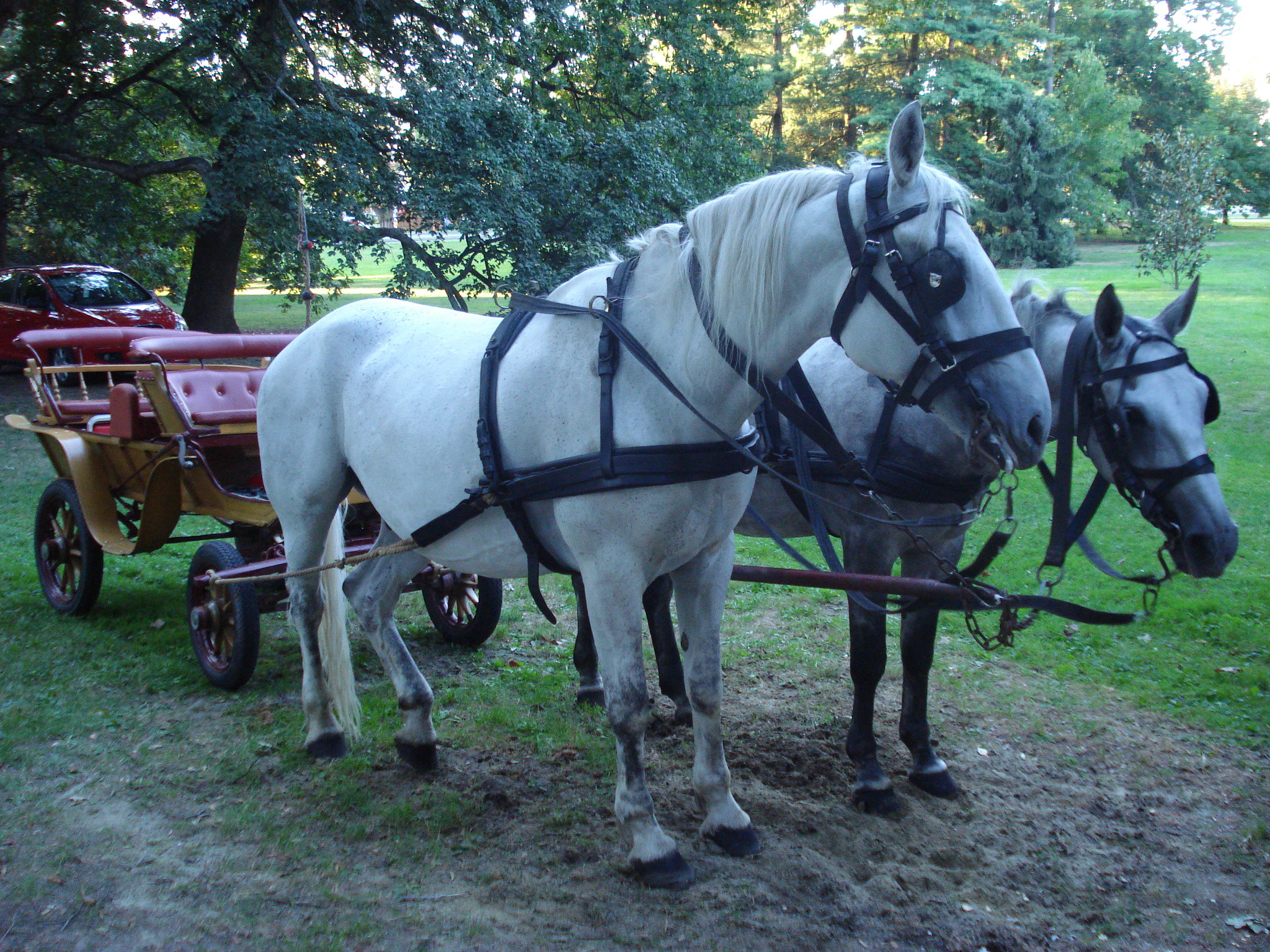 Two harnessed Lipizzan horses at a local event in Čakovec, Medjimurje County, CroatiaHrvatski: Dva upregnuta lipicanca na katolički blagdan Porcijunkulova u Čakovcu, Međimurska županija, Hrvatska